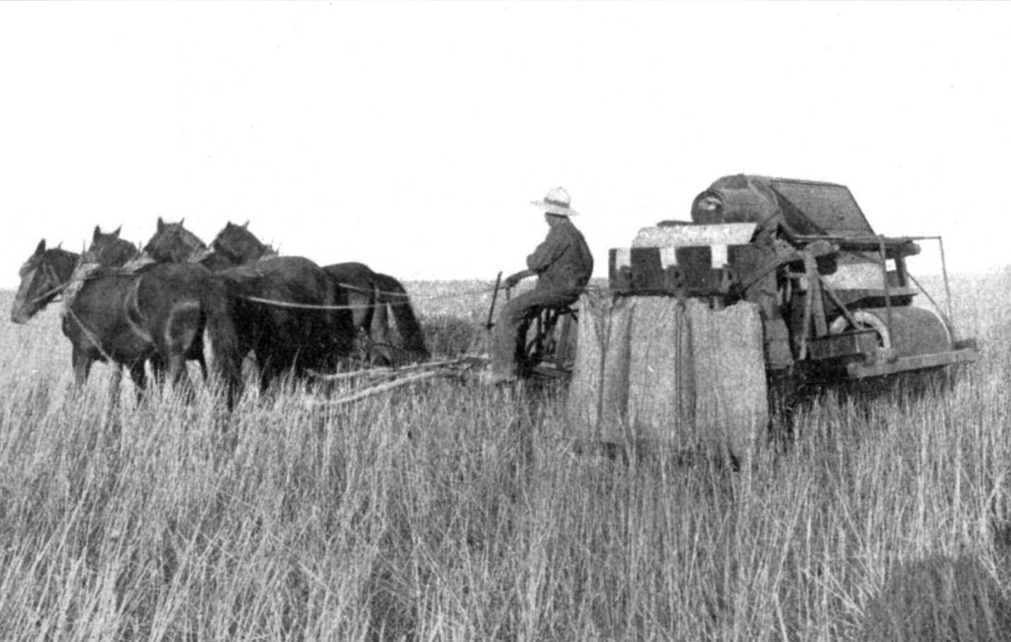 Harvester as used in Australia.